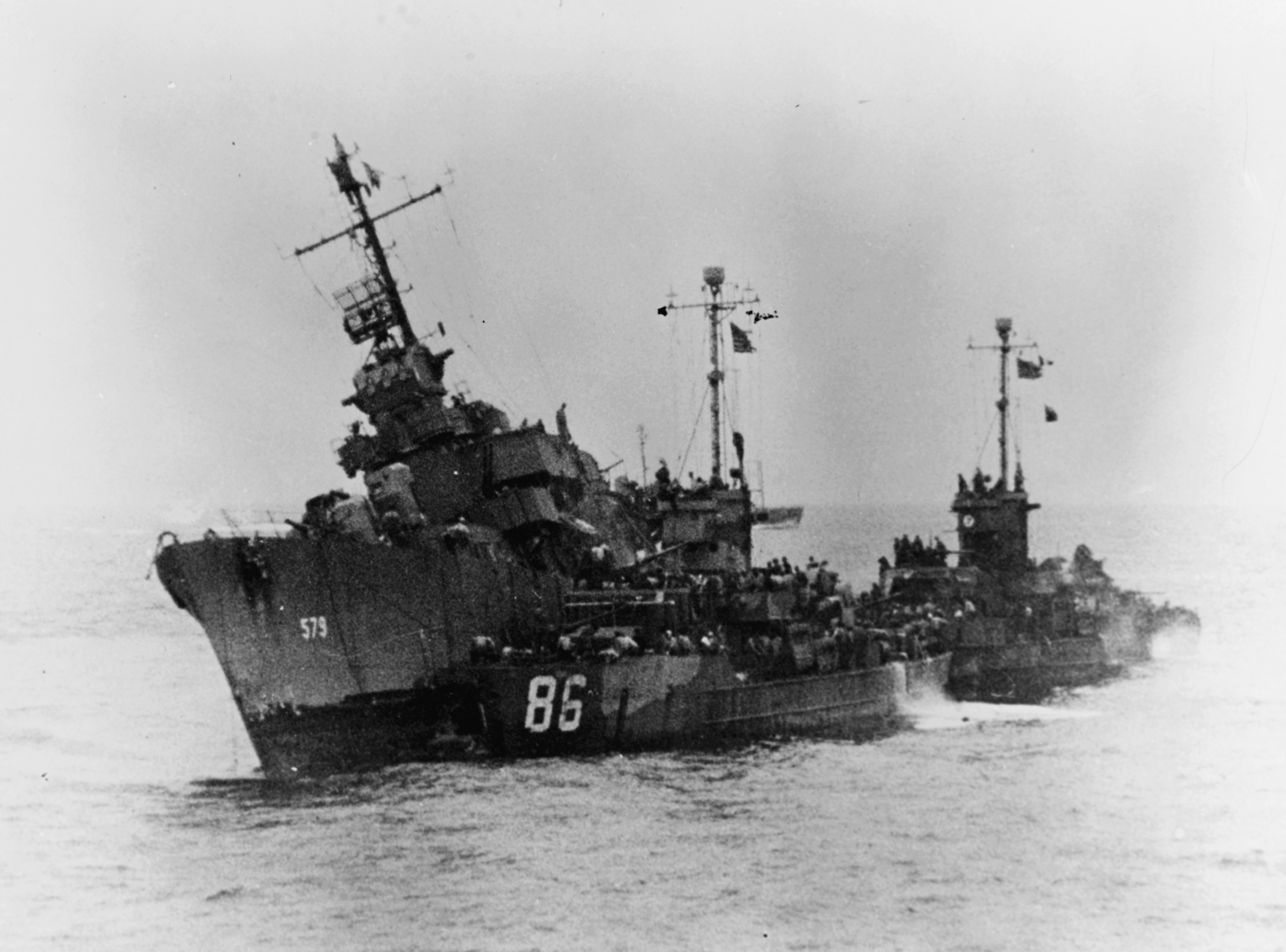 The U.S. Navy destroyer USS William D. Porter (DD-579) sinking after she was near-missed by a "Kamikaze" suicide aircraft off Okinawa, 10 June 1945. USS LCS-86 and another LCS are alongside, taking off her crew. Though not actually hit by the enemy plane, William D. Porter received fatal underwater damage from the near-by explosion.